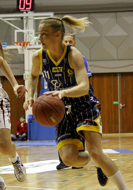 Pálína Gunnlaugsdóttir with Grindavík women's basketball team in February 2015.